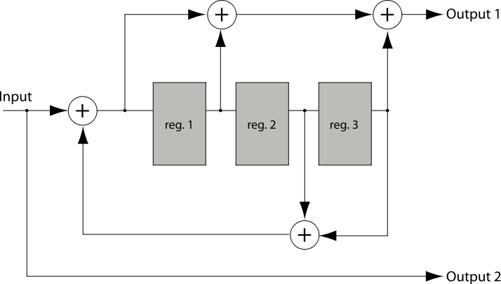 Recursive systematic convolutional encoder